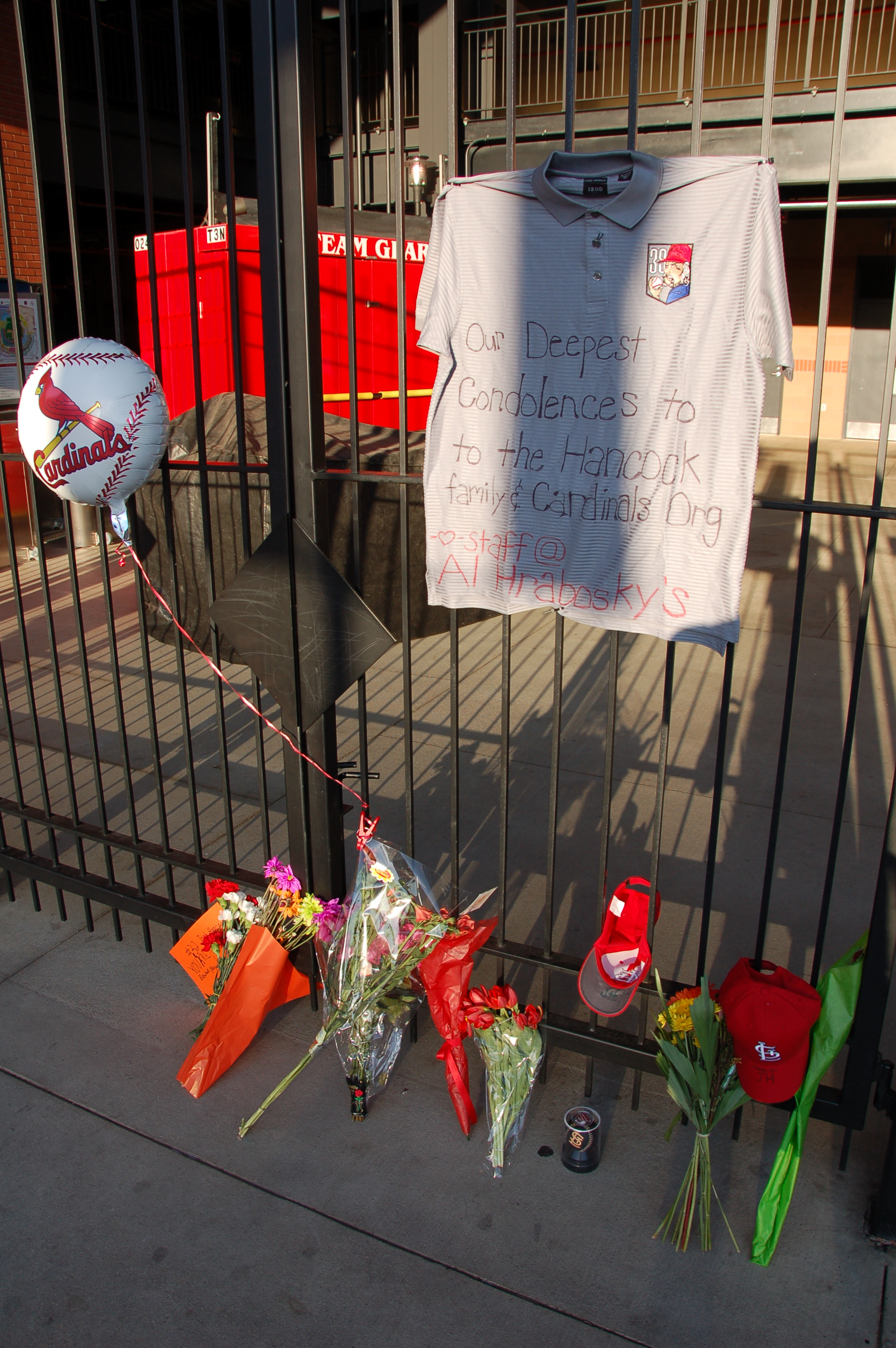 A little impromptu shrine in front of Busch Stadium for the Cardinals pitcher Josh Hancock.